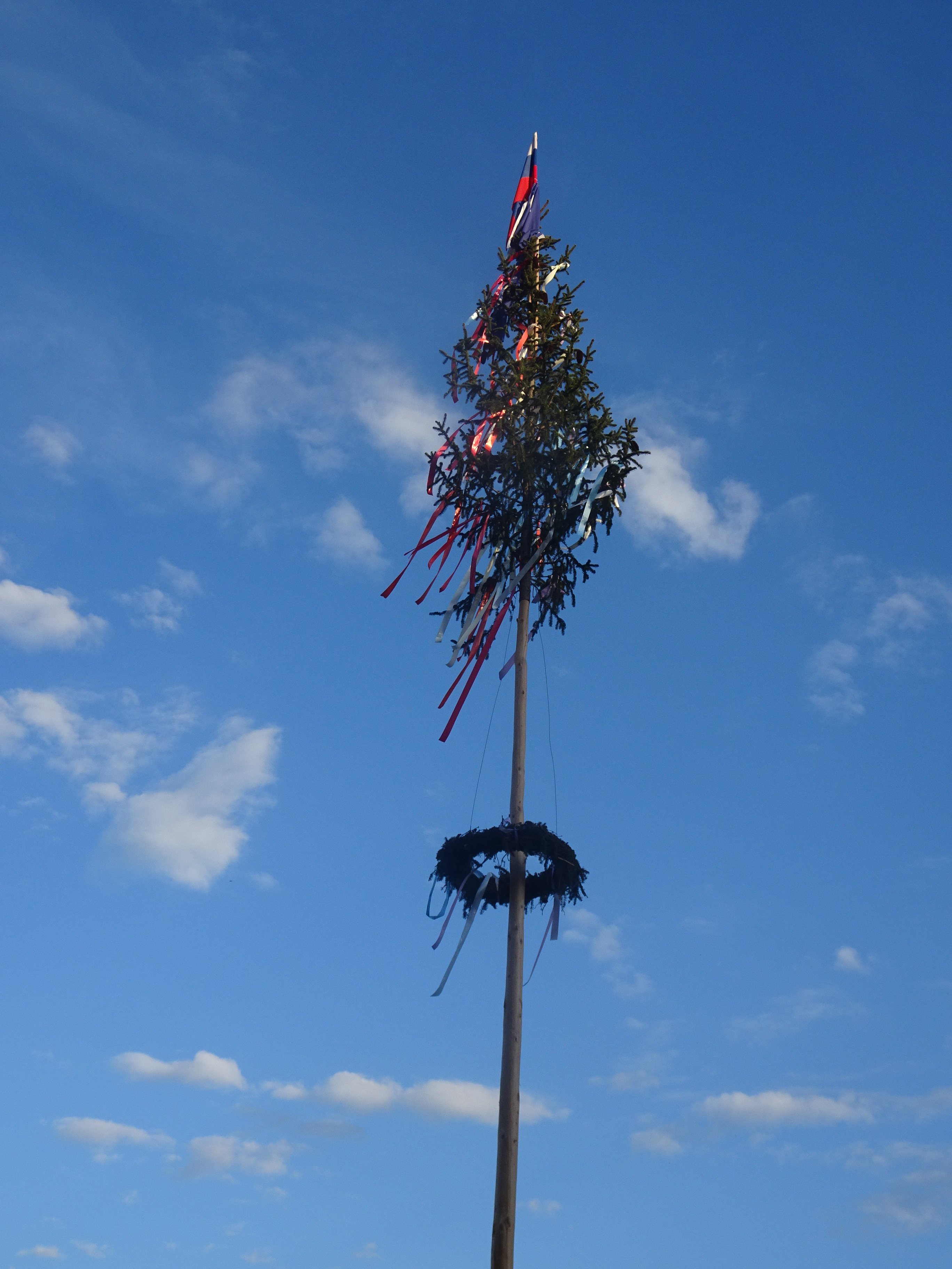 1st May maypole with flag in Slovenia